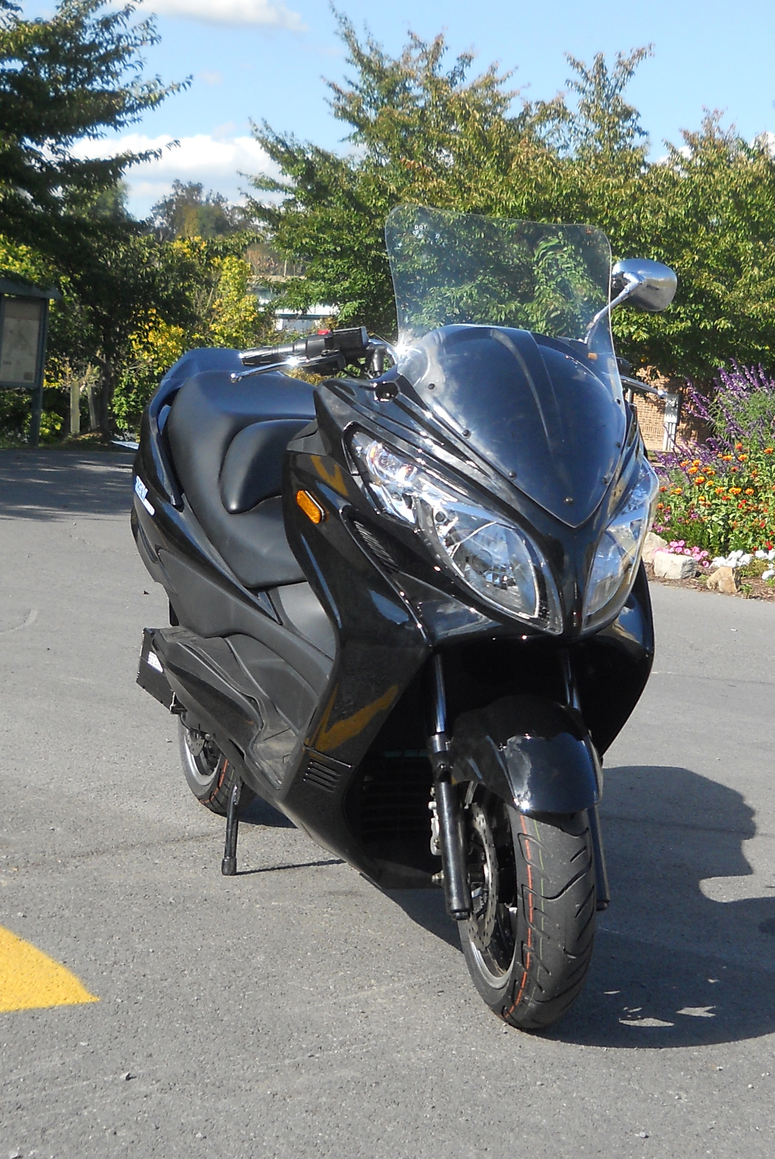 Front quarter view, black, ZEV Electric 10 LRC, 10 kw electric motor scooter